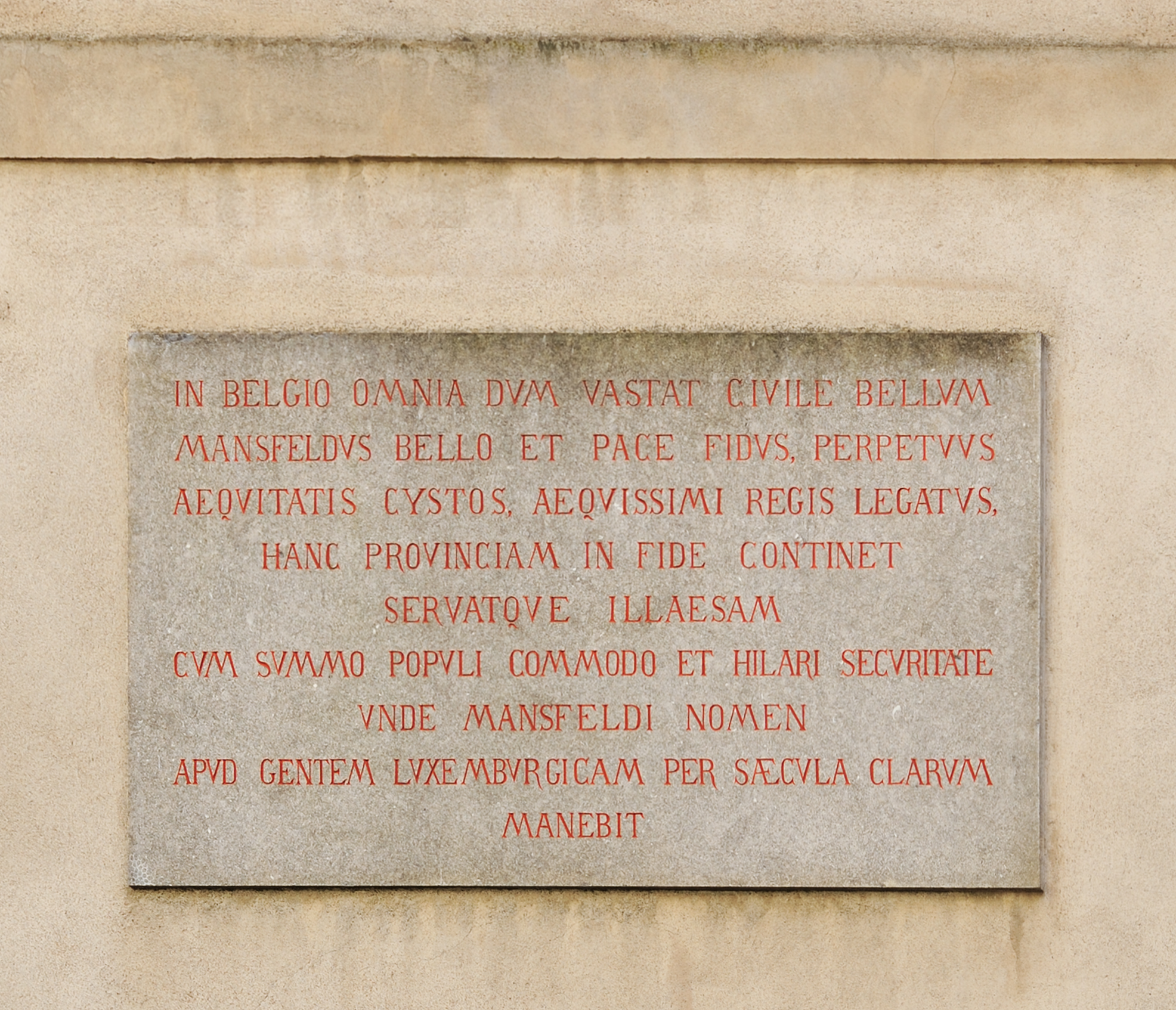 Luxembourg City, Grand Ducal Palace: plaque on northern facade.